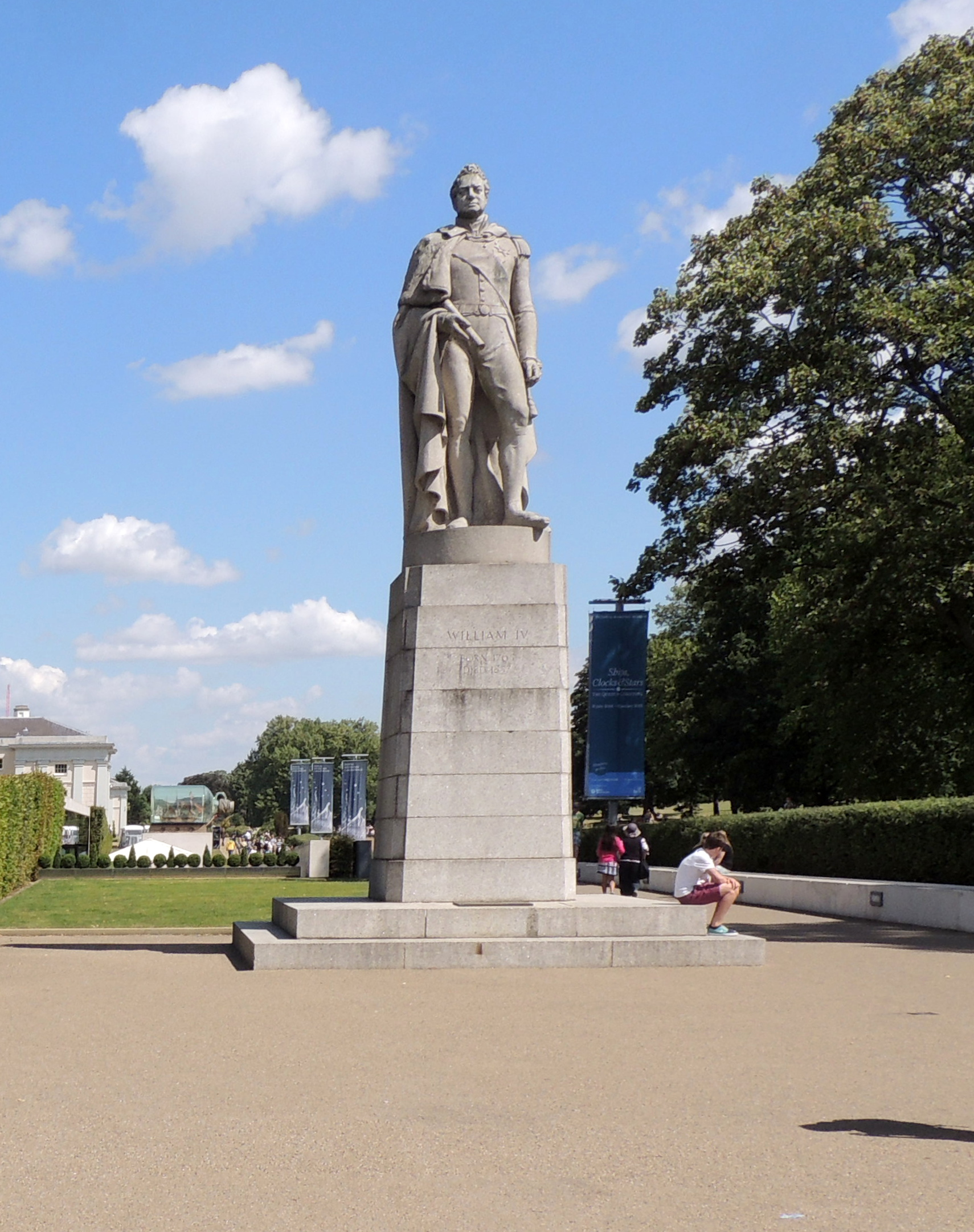 Monument to William IV of the United Kingdom by Samuel Nixon (sculptor), outside of National Maritime Museum, Greenwich, UK